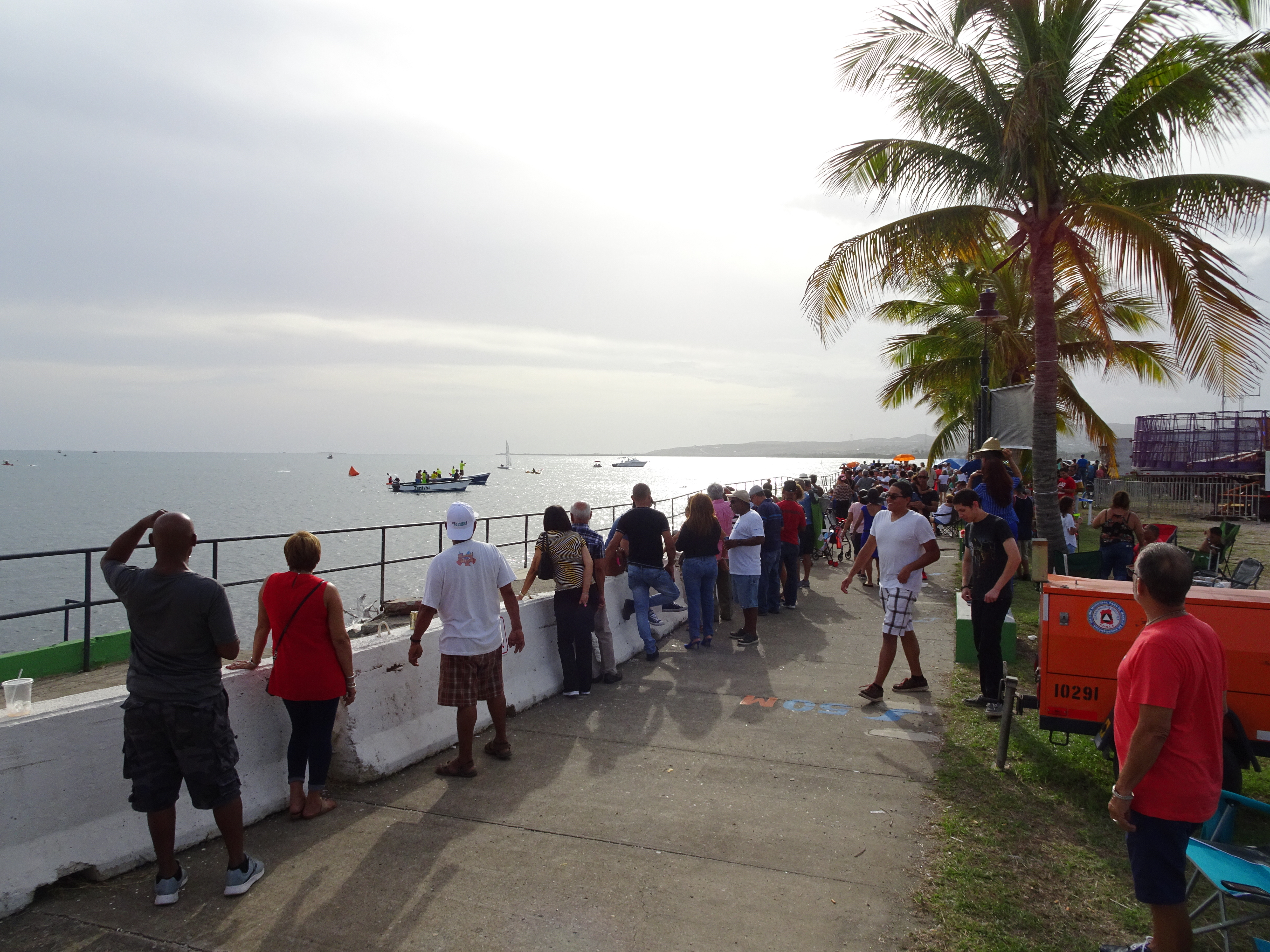 Muchedumbre asiste al Cruce a Nado 2019, Bo. Playa, Ponce, PR, mirando al oeste (DSC01884)